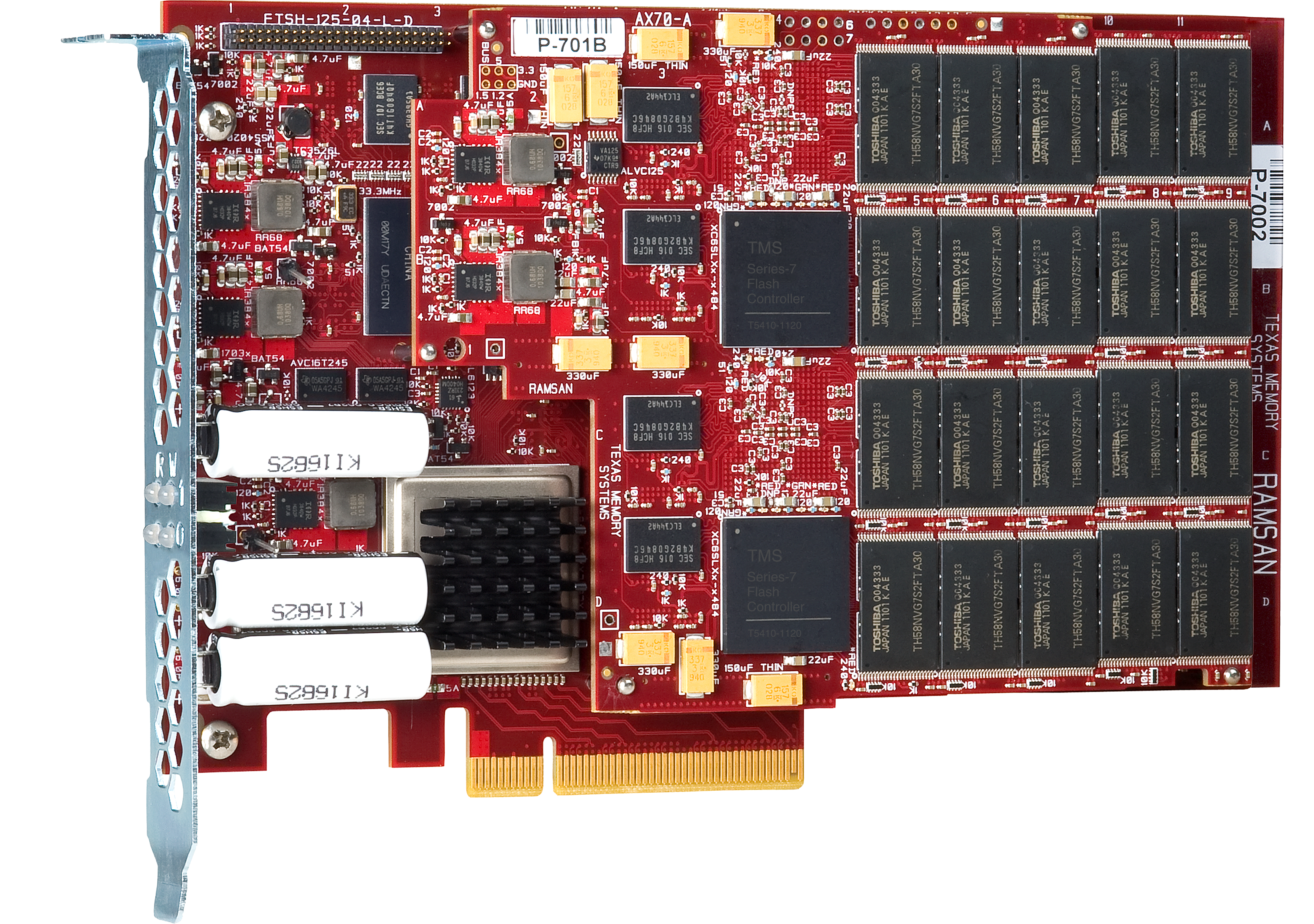 Texas Memory Systems' RamSan-70 PCIe SSD